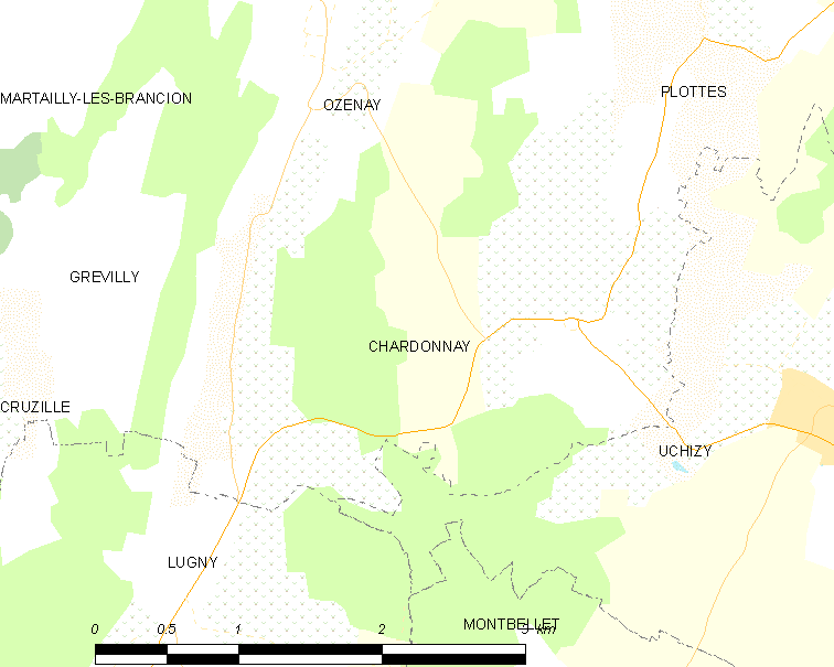 Map of French municipality